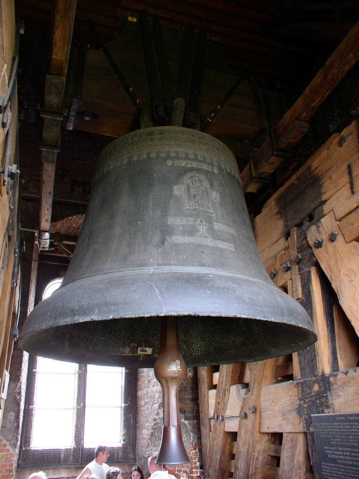 The Zygmunt Bell, Kraków, Poland. Photo by Sensor.